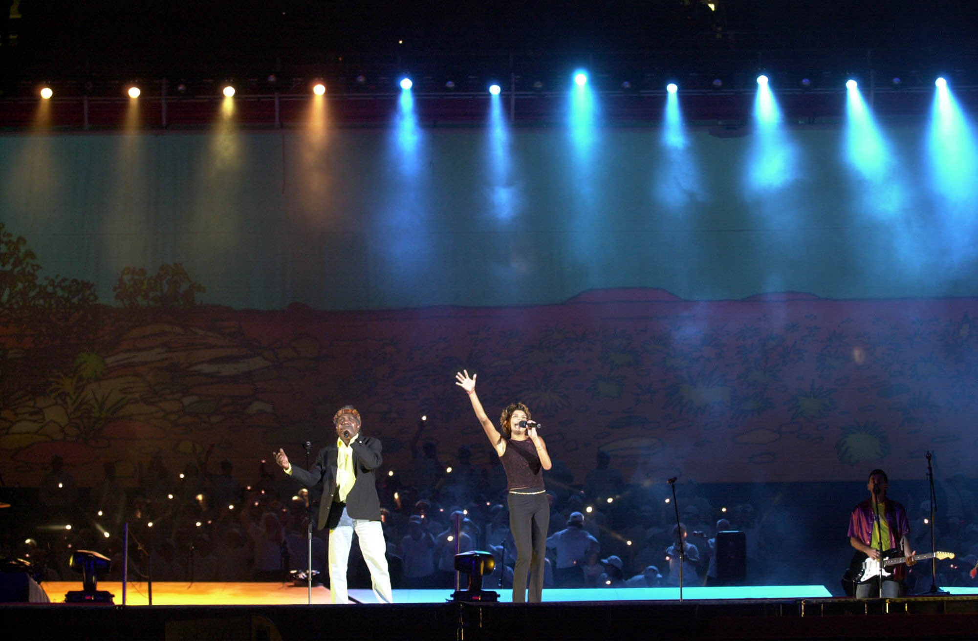 Members of Australian aboriginal band Yothu Yindi perform onstage at the Sydney Paralympic Games Opening Ceremony